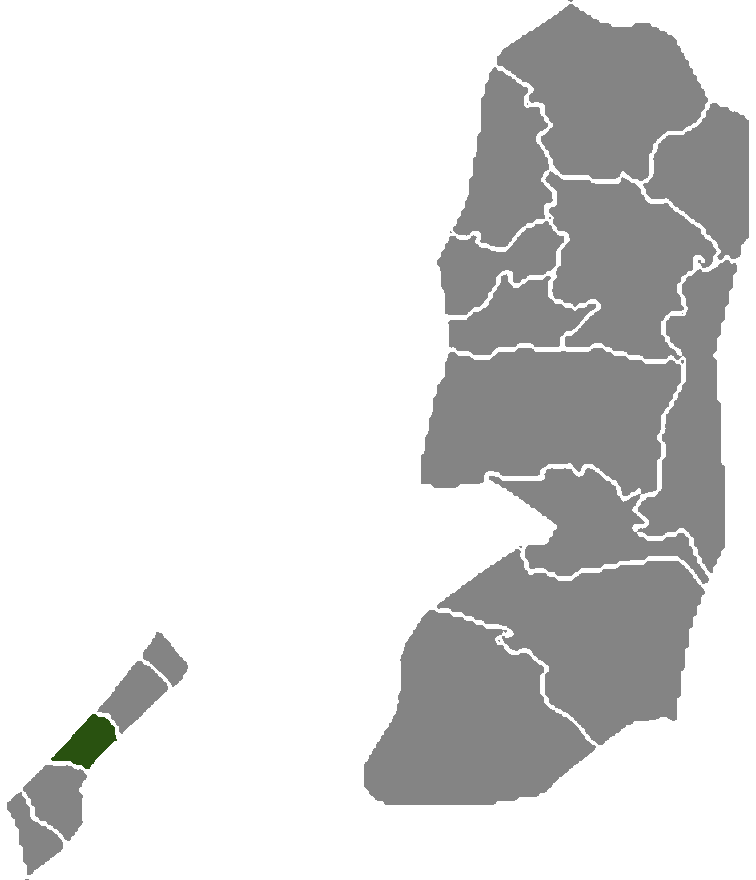 Palestine governorate Deir al-Balah